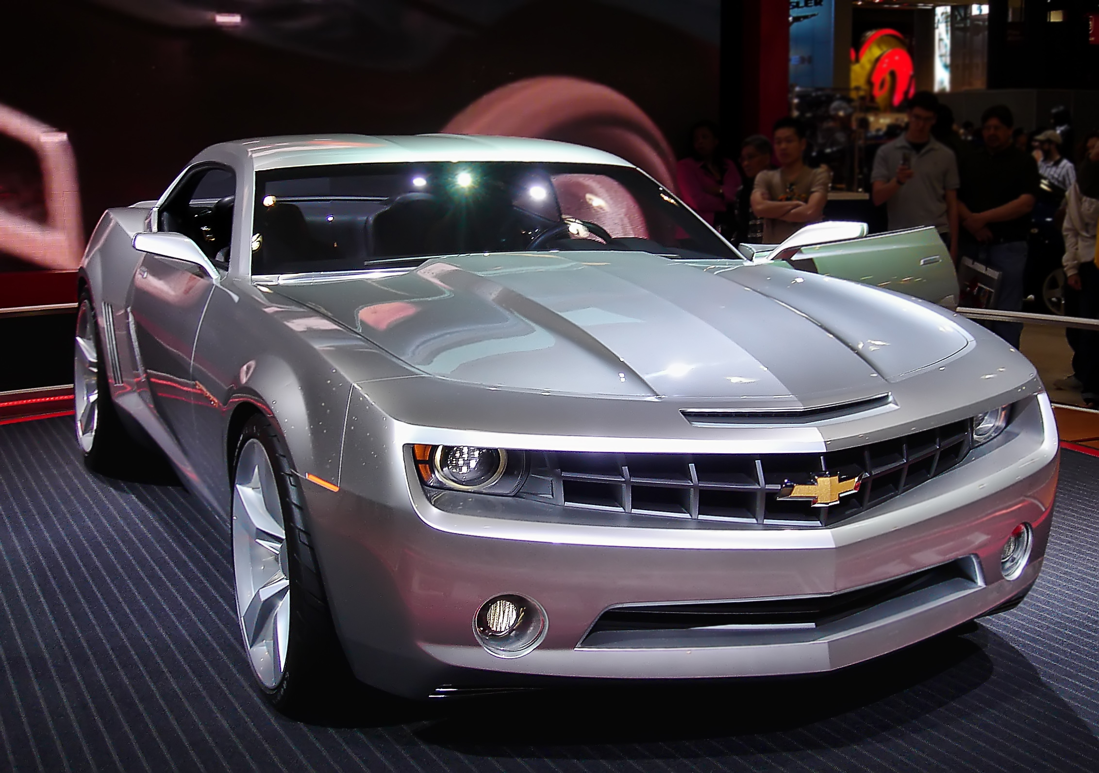 Chevrolet Camaro concept car at the 2006 New York International Auto Show